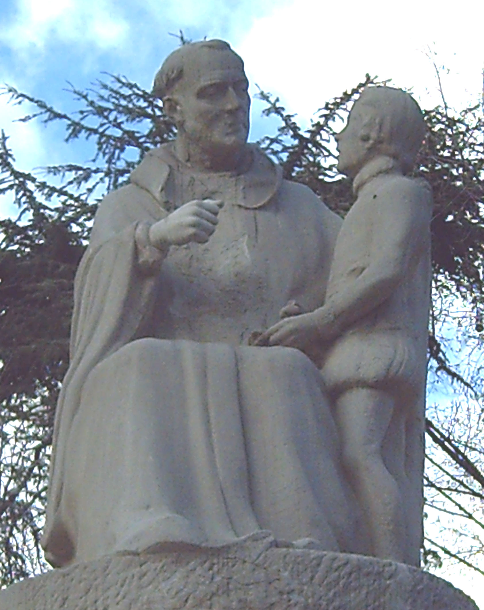 Detail of the monument to Pedro Ponce de León (1520–1584) built in the Retiro Park (Jardines del Buen Retiro) in Madrid (Spain) in 1920. Figures were made by deaf sculptor Manuel Iglesias Recio. They represent Ponce teaching the first letter of the manual alphabet to one of his pupils.